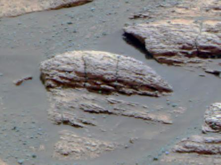 This image taken by the Mars Exploration Rover Opportunity's panoramic camera shows the rock nicknamed "Last Chance," which lies within the outcrop near the rover's landing site at Meridiani Planum, Mars. The image provides evidence for a geologic feature known as ripple cross-stratification. At the base of the rock, layers can be seen dipping downward to the right. The bedding that contains these dipping layers is only one to two centimeters (0.4 to 0.8 inches) thick. In the upper right corner of the rock, layers also dip to the right, but exhibit a weak "concave-up" geometry. These two features -- the thin, cross-stratified bedding combined with the possible concave geometry -- suggest small ripples with sinuous crest lines. Although wind can produce ripples, they rarely have sinuous crest lines and never form steep, dipping layers at this small scale. The most probable explanation for these ripples is that they were formed in the presence of moving water.